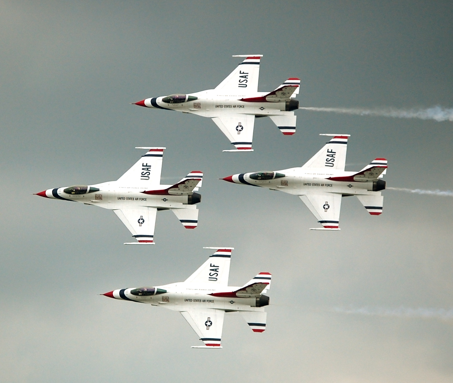 Thunderbird Diamond Formation at the 2009 Dayton Air Show.